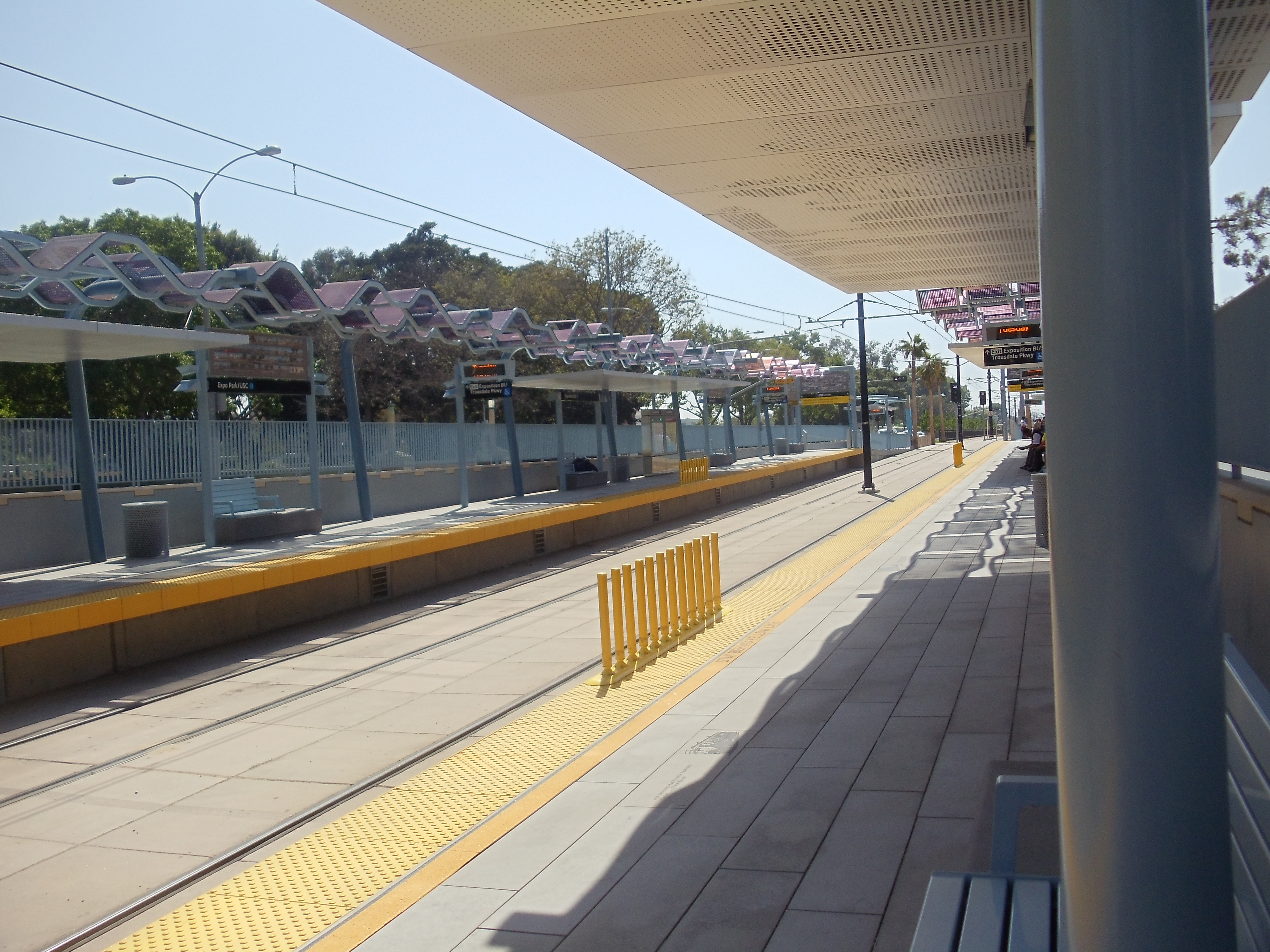 Westbound platform.